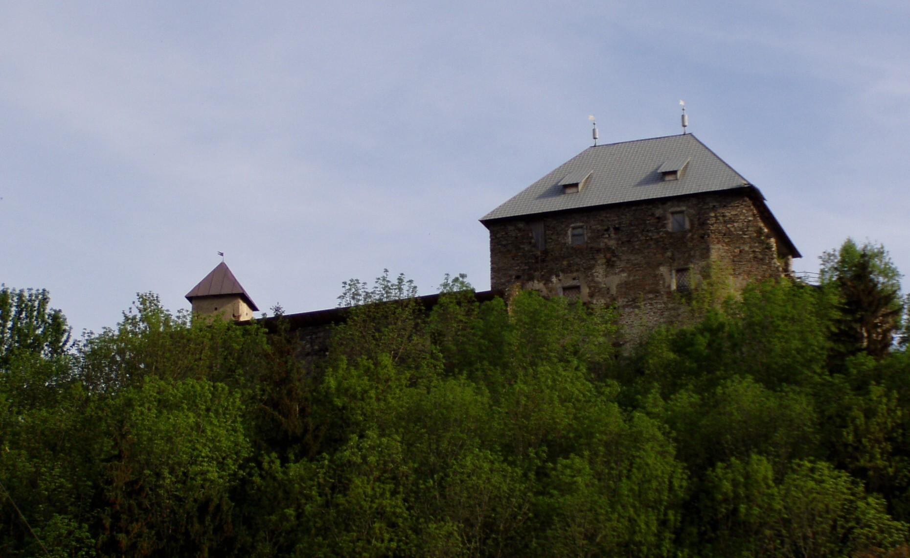 Haimburg in Haimburg, Carinthia